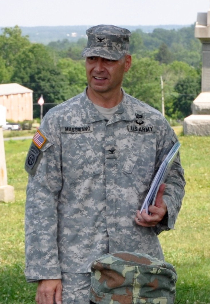 Colonel Douglas Mastriano